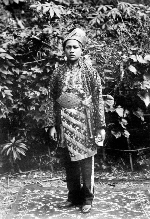 Repronegatief. A young groom from Soengai Poear, Agam, West Sumatra